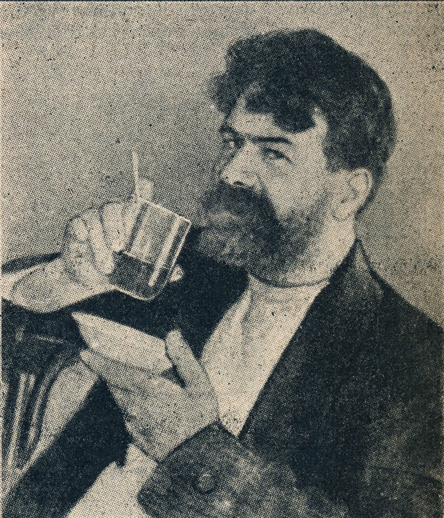 1918 Jurovszkij (Yakov Yurovsky)- Yekaterinburg Cheka commander who had killed the tsar Detail "Ma Este" ("Tonight") - Hungarian cultural and artistic biweekly magazine - 30 July 1925